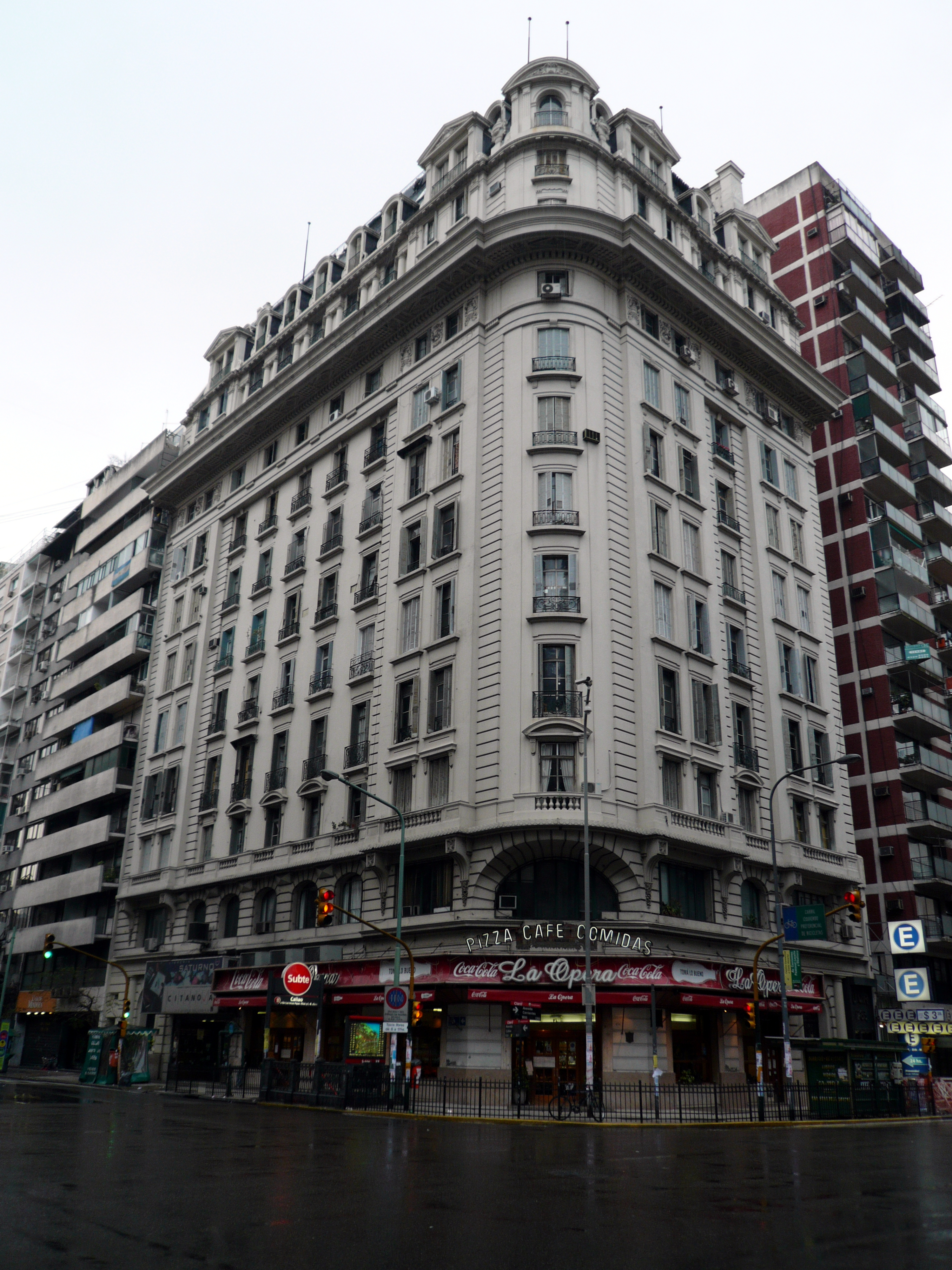 Building on Corrientes 1785, designed Héctor Bengolea Cárdenas and completed in 1927. Intersection of Corrientes and Callao Avenues, Buenos Aires.